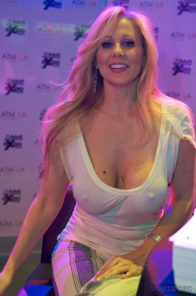 Julia Ann - 2012 AVN Adult Entertainment Expo (AEE) - Hard Rock Hotel - Las Vegas. © 2012 GEC.